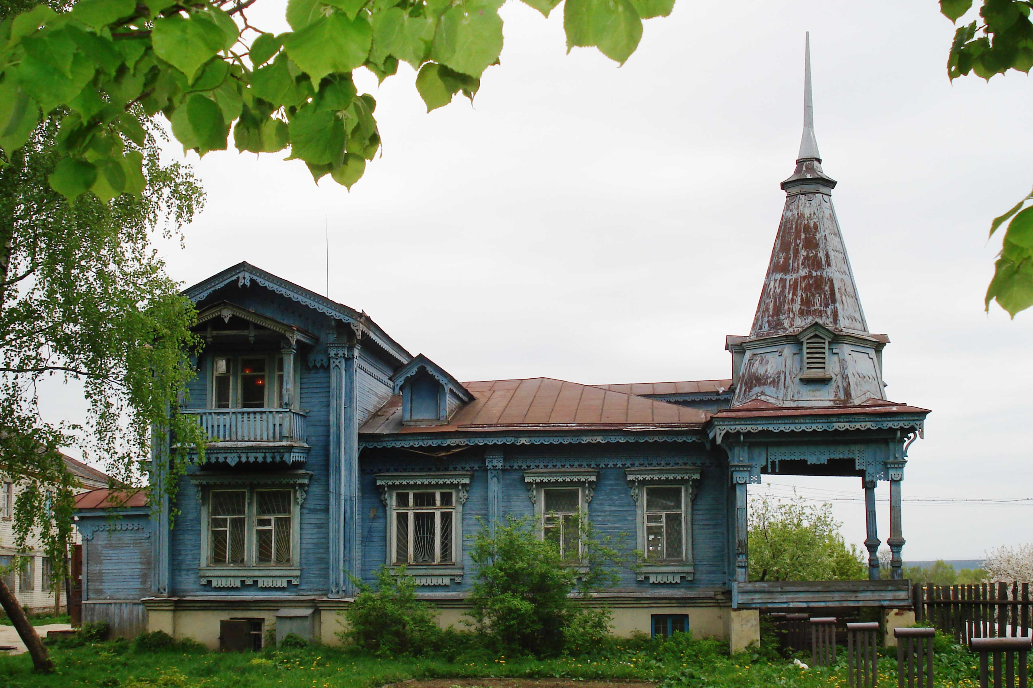 The village library and post office. Chulkovo. Nizhegorodskaya oblast